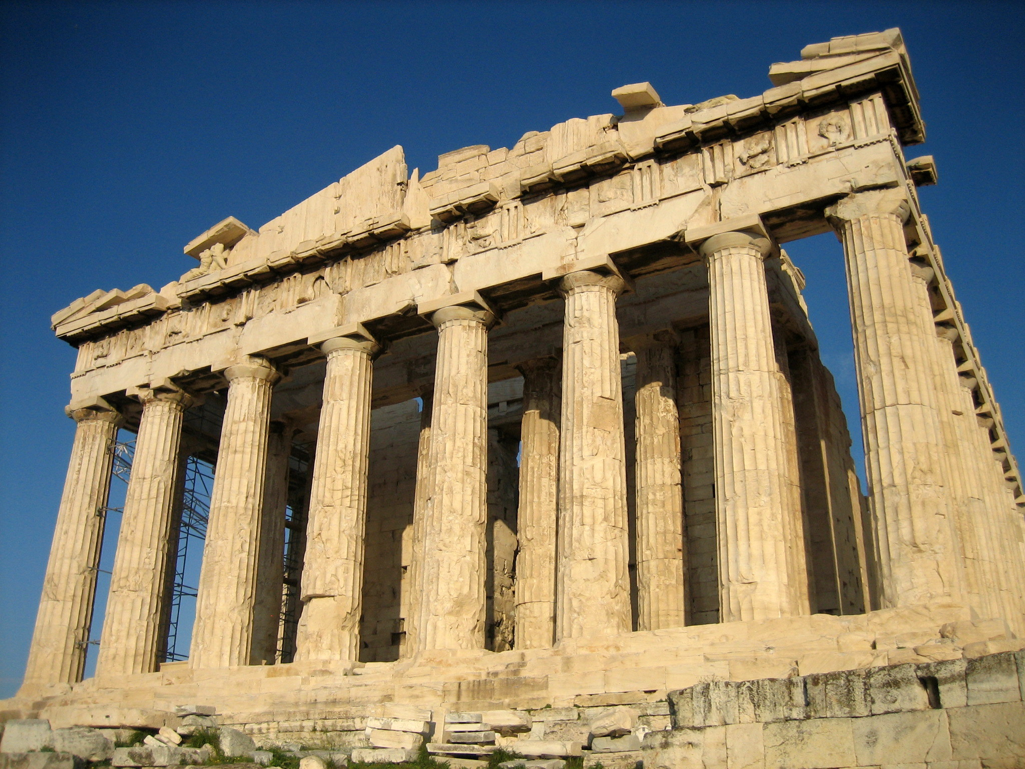 Parthenon from west